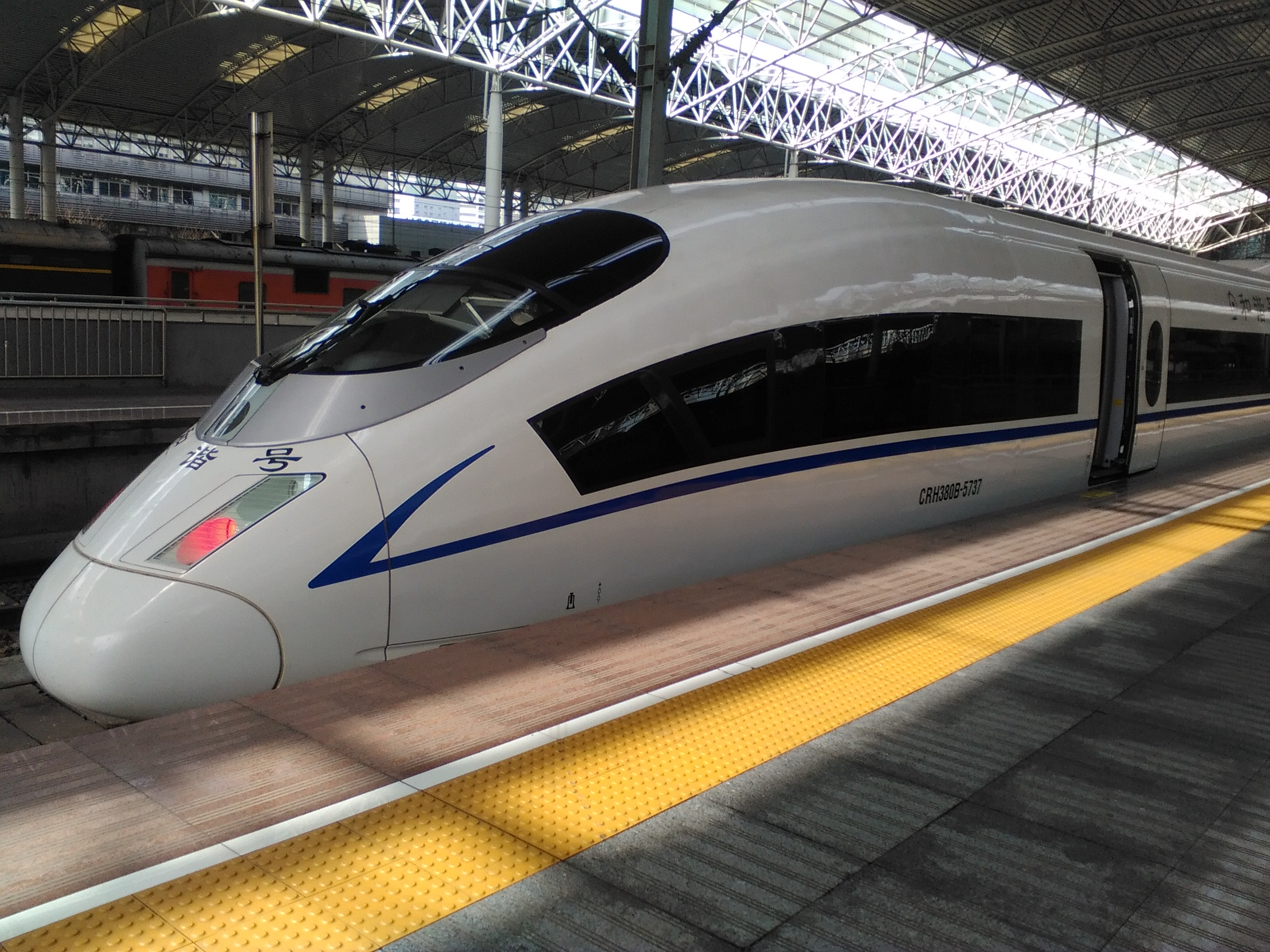 A CRH380B train stopped at platform 6 of Shanghai Railway Station. The serial number is CRH380B-5737, which reconnected with CRH380B-5736. It served as G7048 (toward Nanjing) at that time. 中文（中国大陆）: 一辆CRH380B列车停靠站上海火车站第6号站台，该列车的出厂序列号为CRH380B-5737，与CRH380B-5736重联运行，当时准备执行前往南京站的G7048次列车（由美的集团冠名为“美的中央空调号”）。